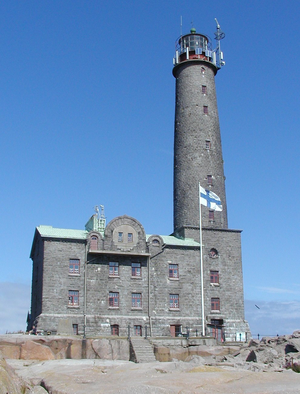 Bengtskär lighthouse seen from south